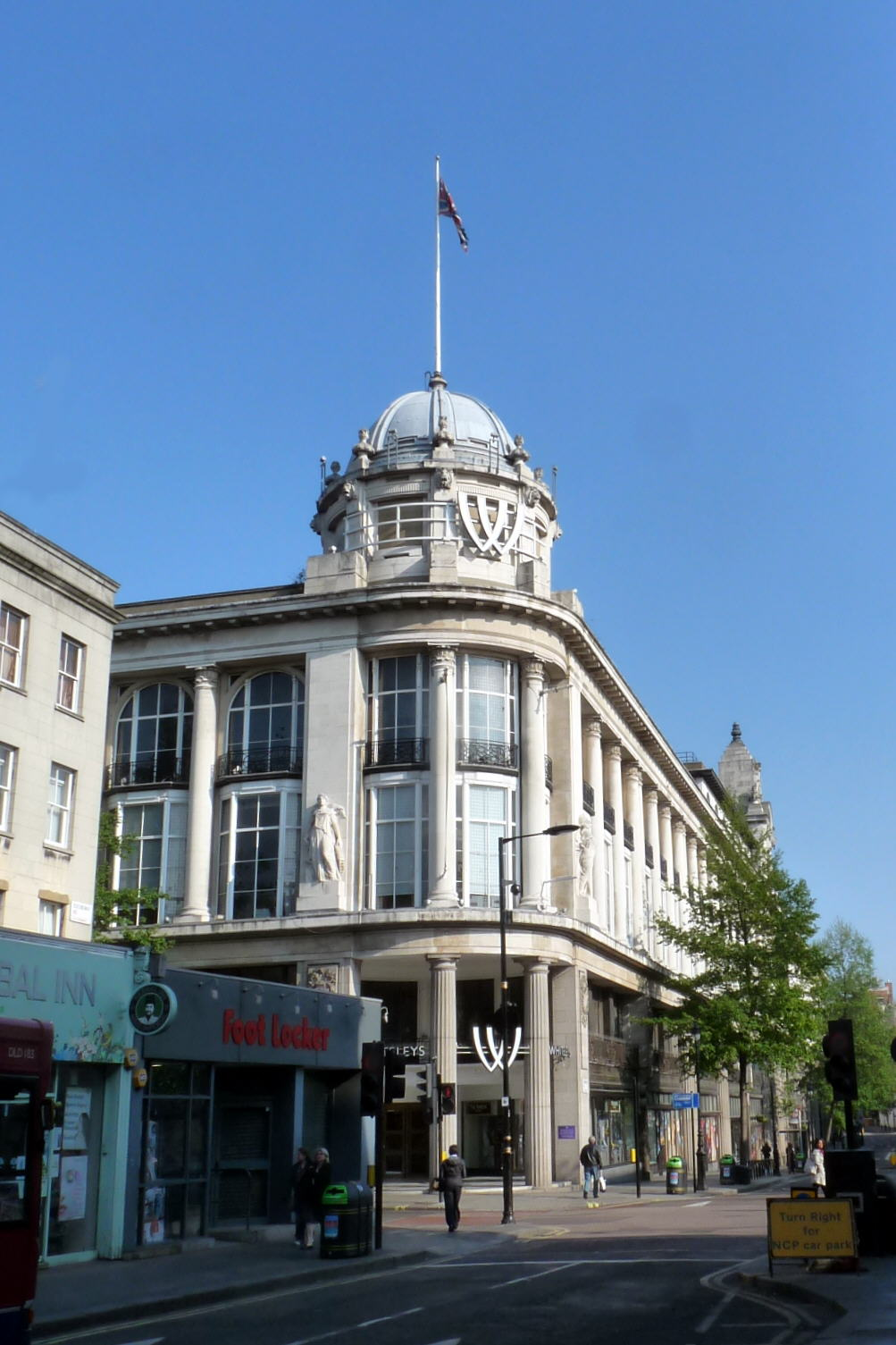 Whiteleys shopping mall, Queensway, London, England